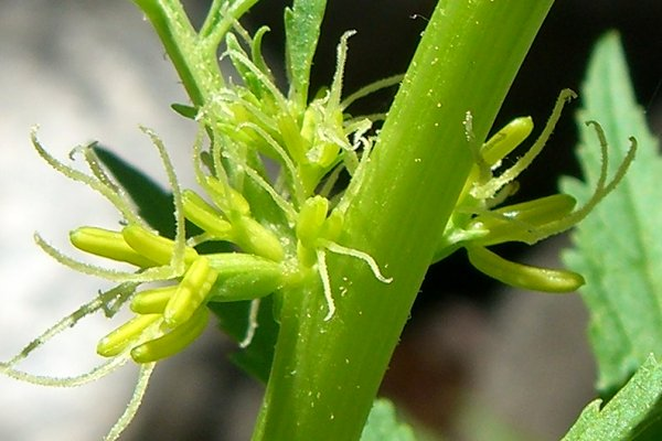 Scientific Name: Datisca glomerata (C. Presl) Baillon Common Name: Durango Root Certainty: positive (notes) Location: California; San Jacinto; Caramba Overlook Trail Date: 20070629 Close-up of flowers.